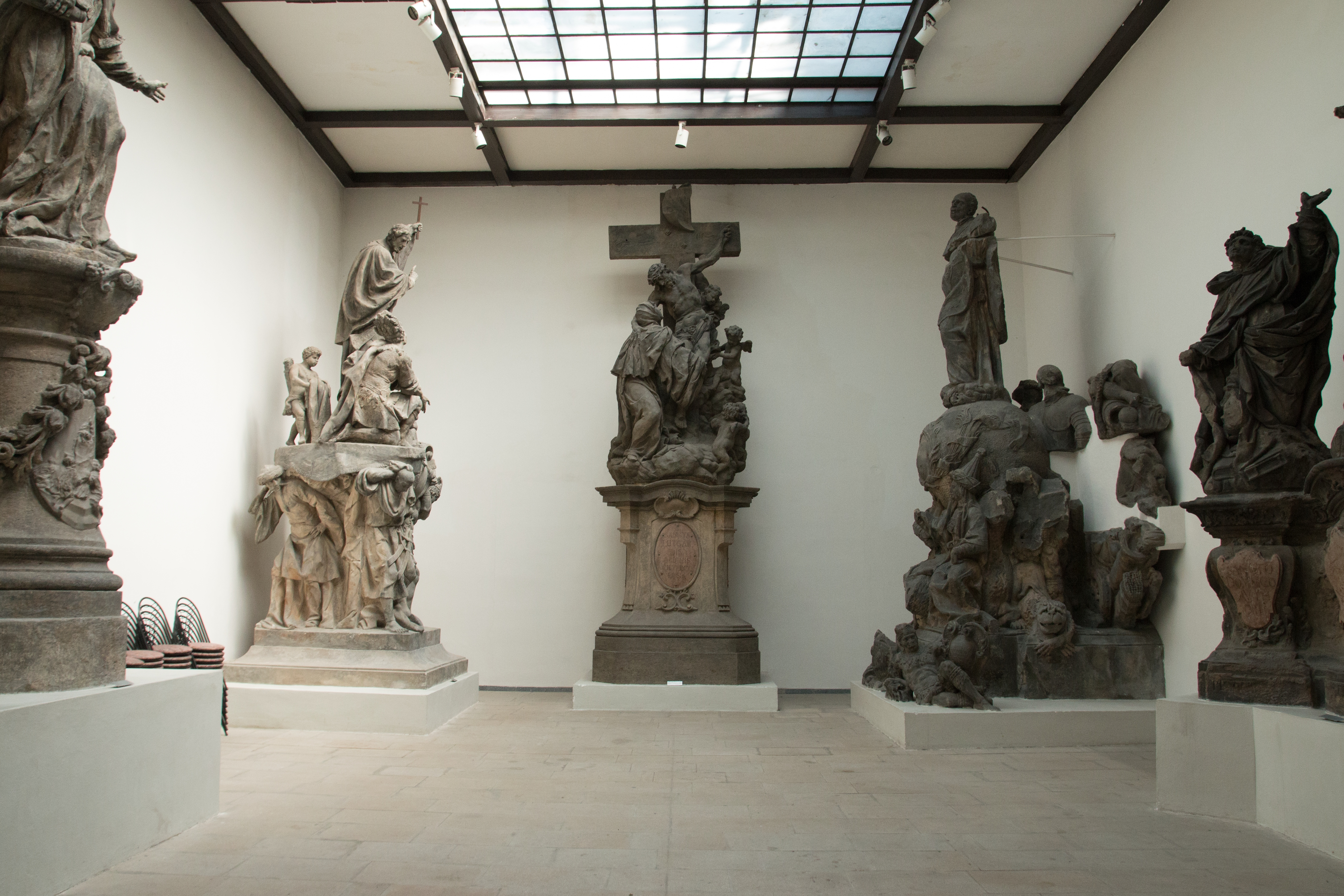 Statues from Charles Bridge. Lapidary of the National Museum in Prague.